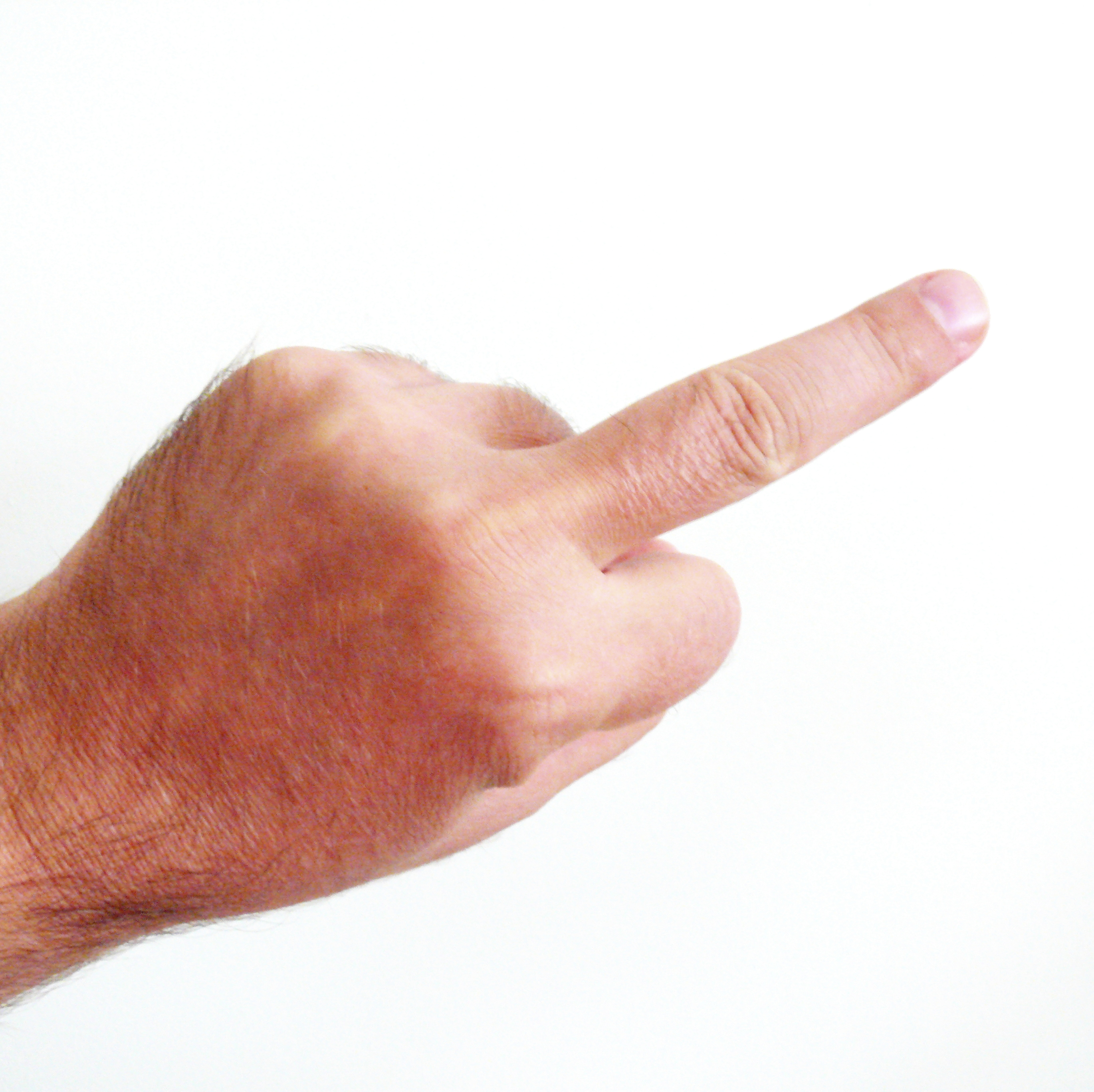 fingers